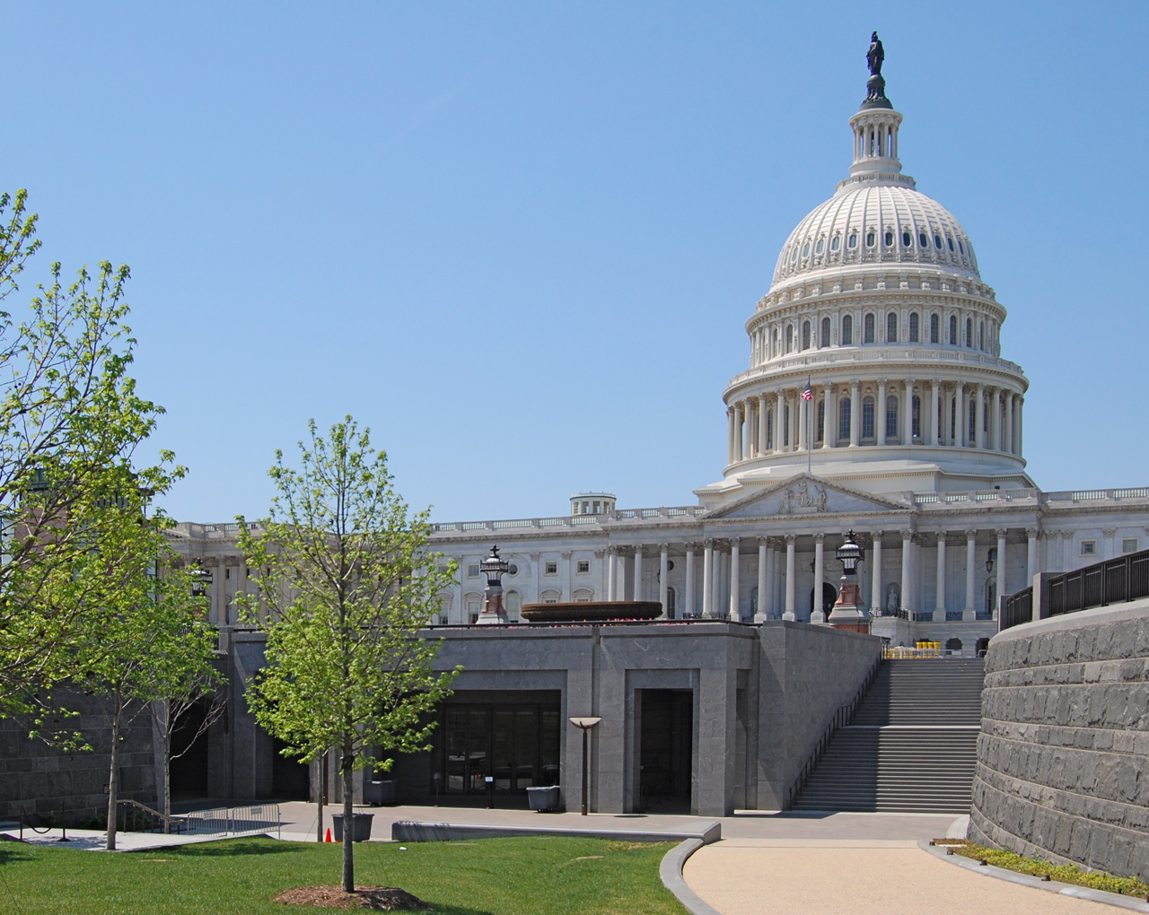 Northeast entrance to the underground U.S. Capitol Visitors' Center.